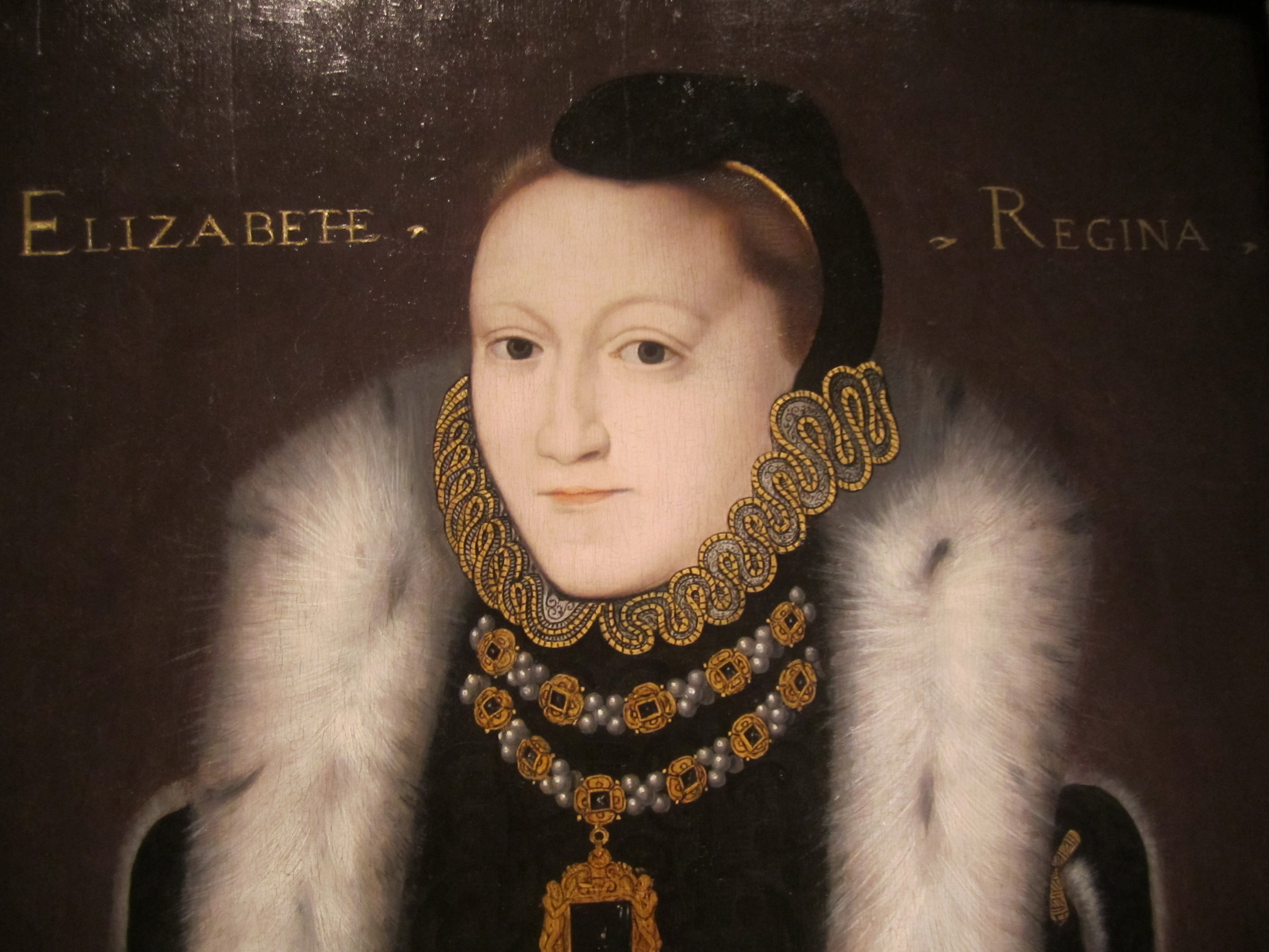 I took photo with Canon camera of Elizabeth I, as she appears at the U.S. National Portrait Gallery in Washington, D.C. U.S. government permanent collection. Public domain.